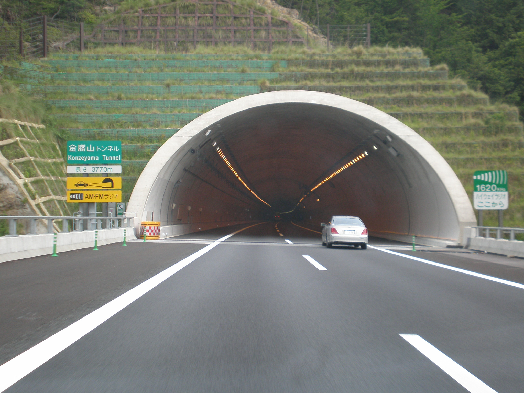 Outbound line and Konzeyama tunnel